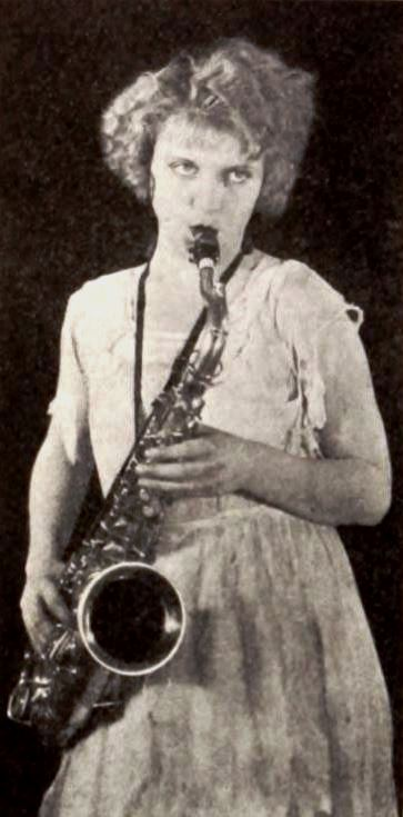 Still from the American comedy film The Land of Jazz (1920) with Eileen Percy, on page 158 of the December 25, 1920 Exhibitors Herald.